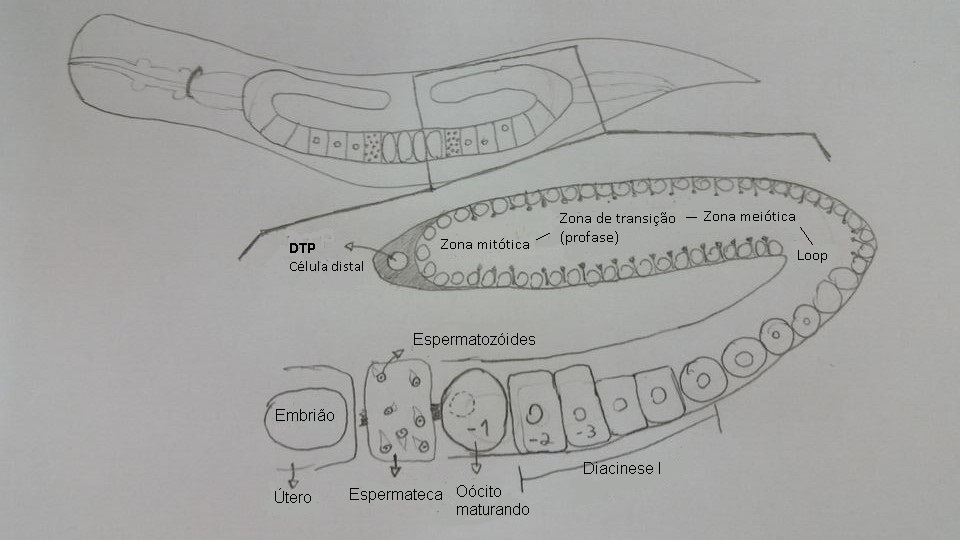 Zoom of the gonad of a hermafrodite individue of C. elegans. It is written in portuguese.